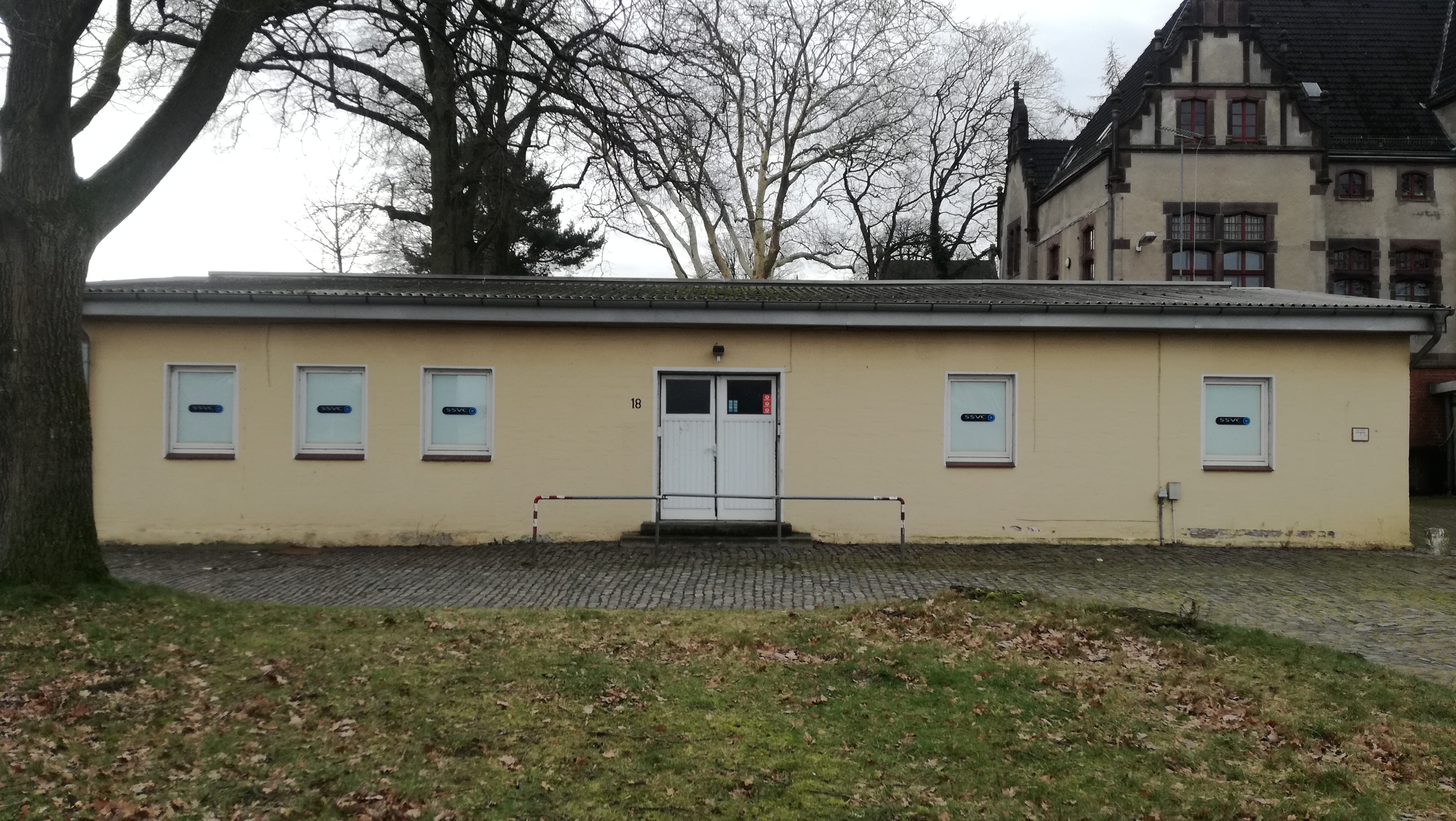 Former SSVC-Building at Osnabrueck Barracks